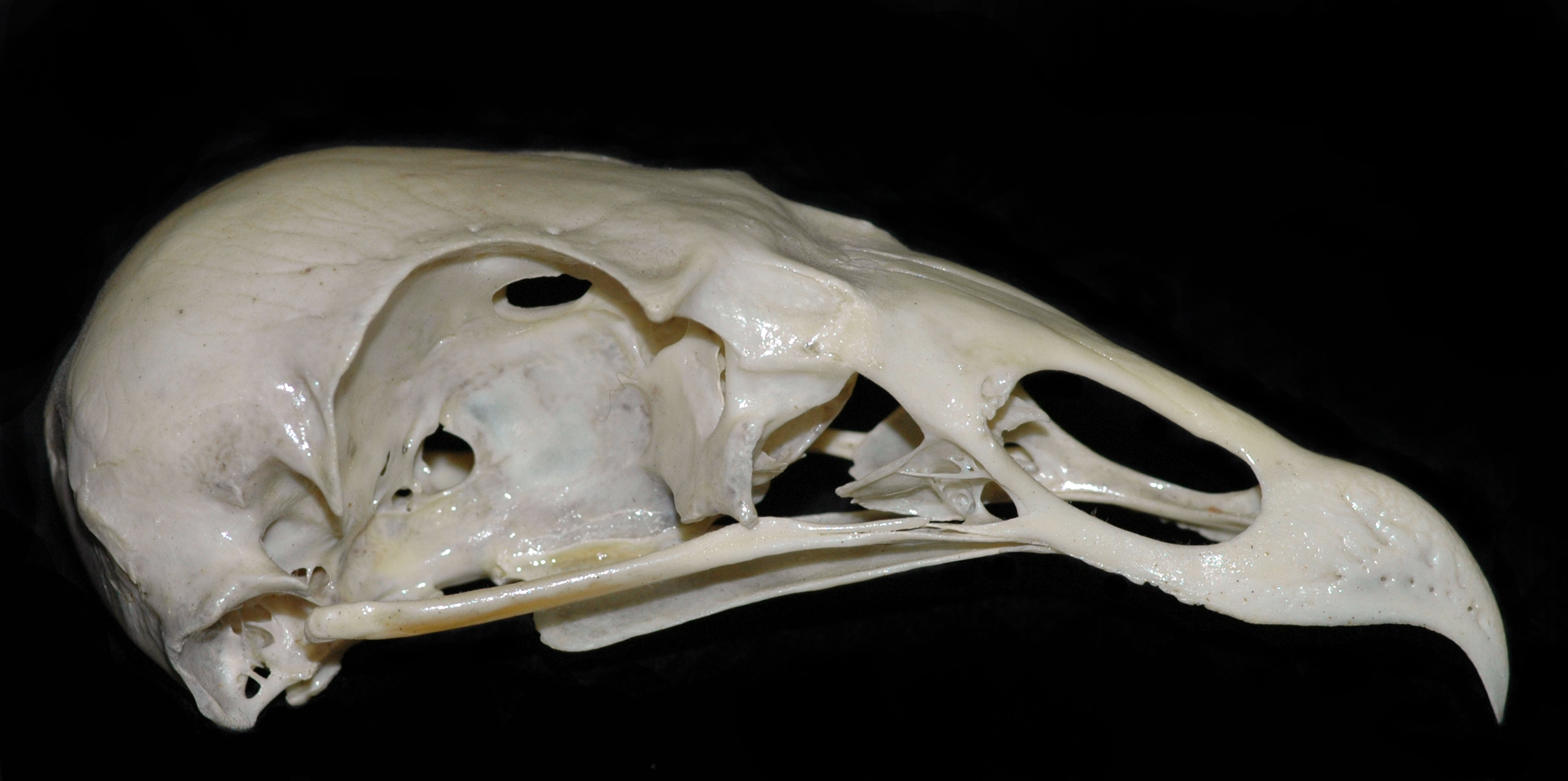 Skull of turkey vulture (Cathartes aura)